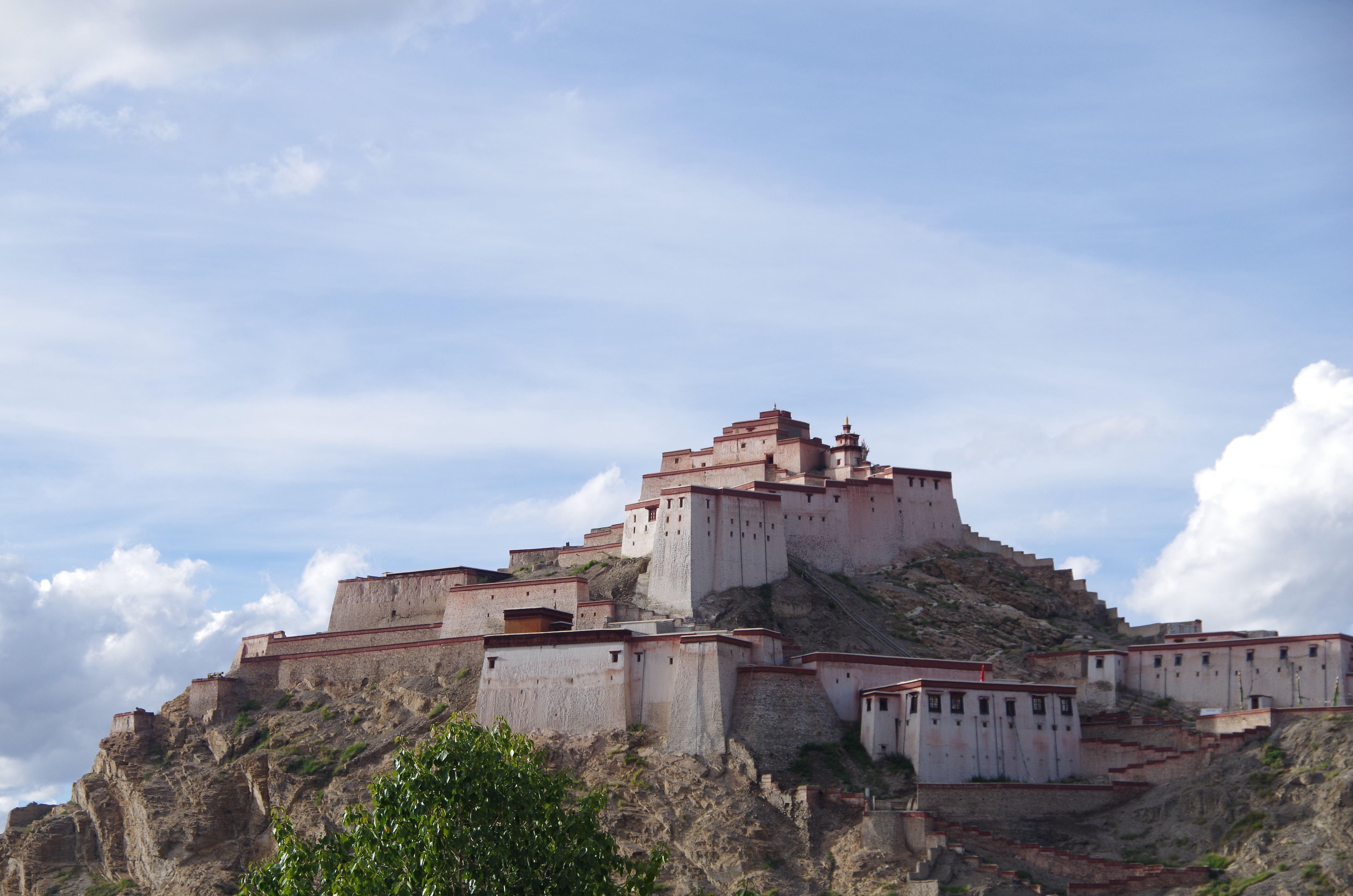 Gyantse Dzong in Tibet, China, September 2015 as seen from the city Gyantse